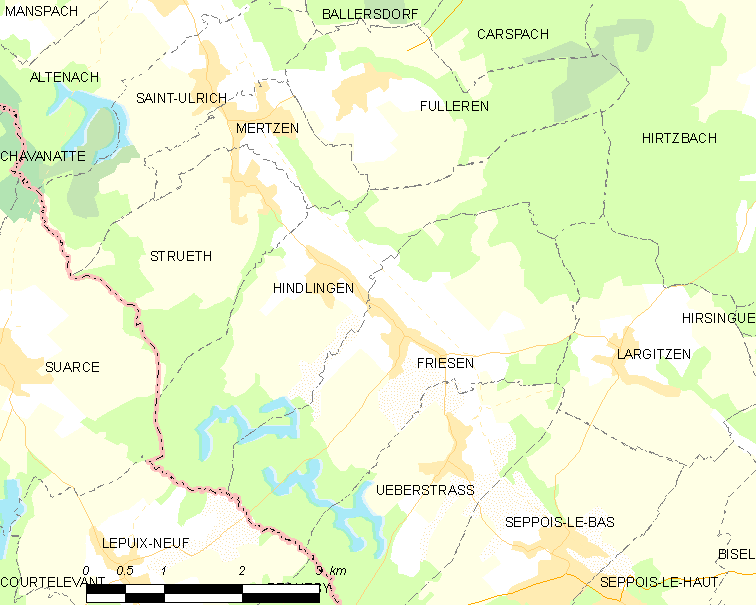 Map of French municipality